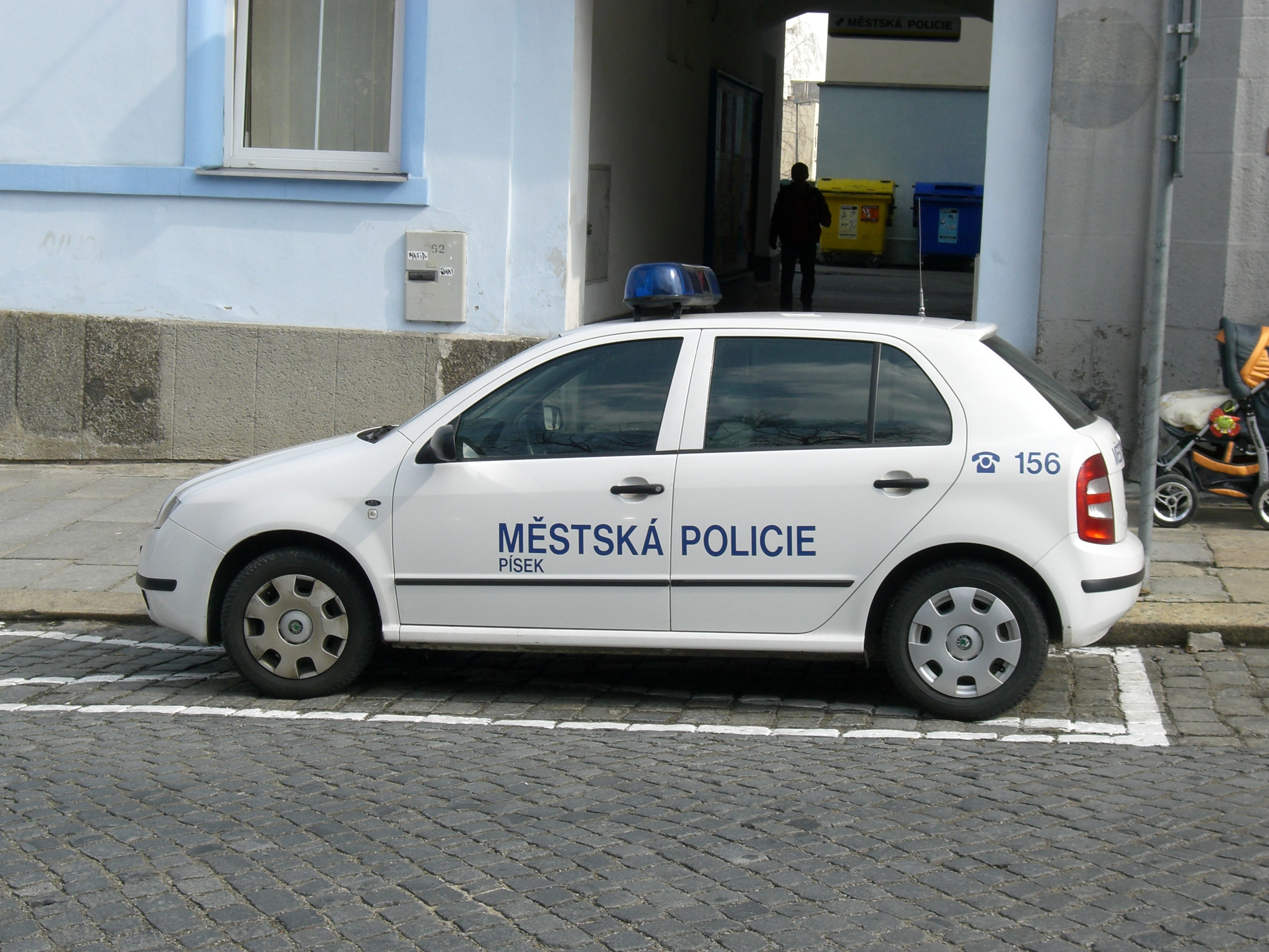 Car of Town Police in Písek